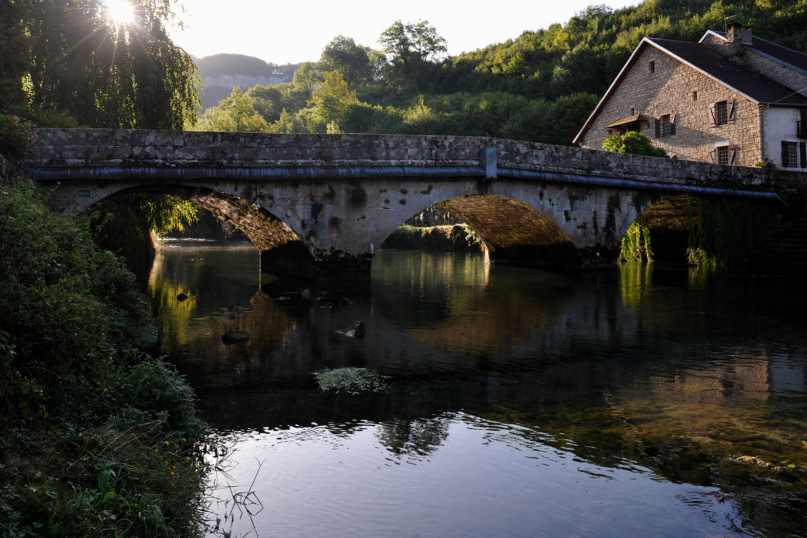 Bridge over the Loue in Mouthier-Haute-Pierre; Doubs, France.